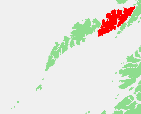 Island of Norway - Austvagoy.PNG